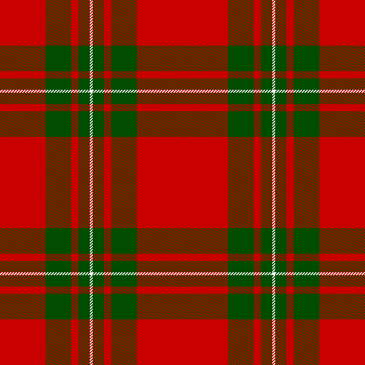 MacGregor tartan, as published in the Vestiarium Scoticum. "Clann Gregour, clyppit alswa ye clann Alpynn: he hath thre wyd stryppis of greine vpon ane scarlatt fyeld, and vpon ye myd stryppe ain spraing of quhite, bot yr be svm quhilk vse not ye qugite spraing, as mak Gregor of glen stryp mydward on ye redd sett and na qugite, and svm I haue sene quha say how ye qhuite wes in ye scarlatt sett of avld, and zeit ys wtin ye pairtes of Balquhidder." ~~ Vestiarium Scoticum page.78, plate.6. Modern thread count: R128 G36 R10 G16 W4.